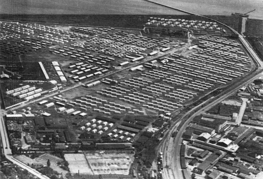 The regee camp which covered all of Kløvermarken in Copenhagen in the years after World War II.